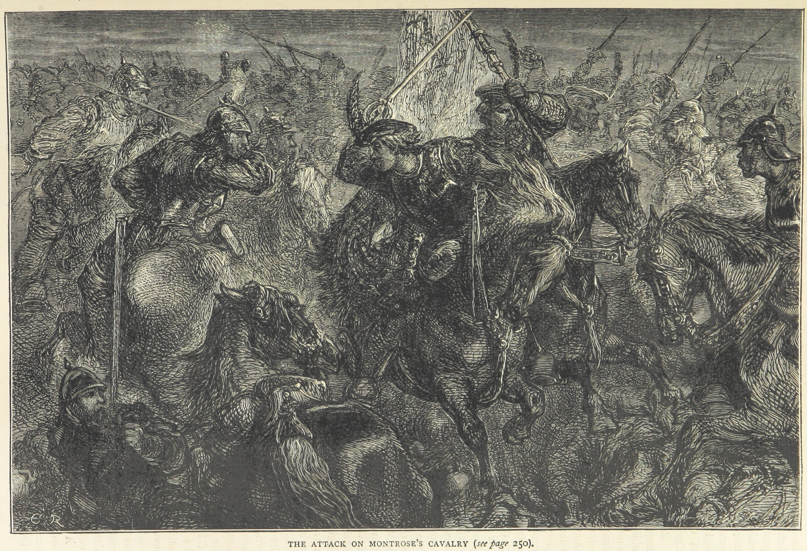 The Scottish Covenanters attack Montrose's Royalist cavalry at the Battle of Kilsyth.